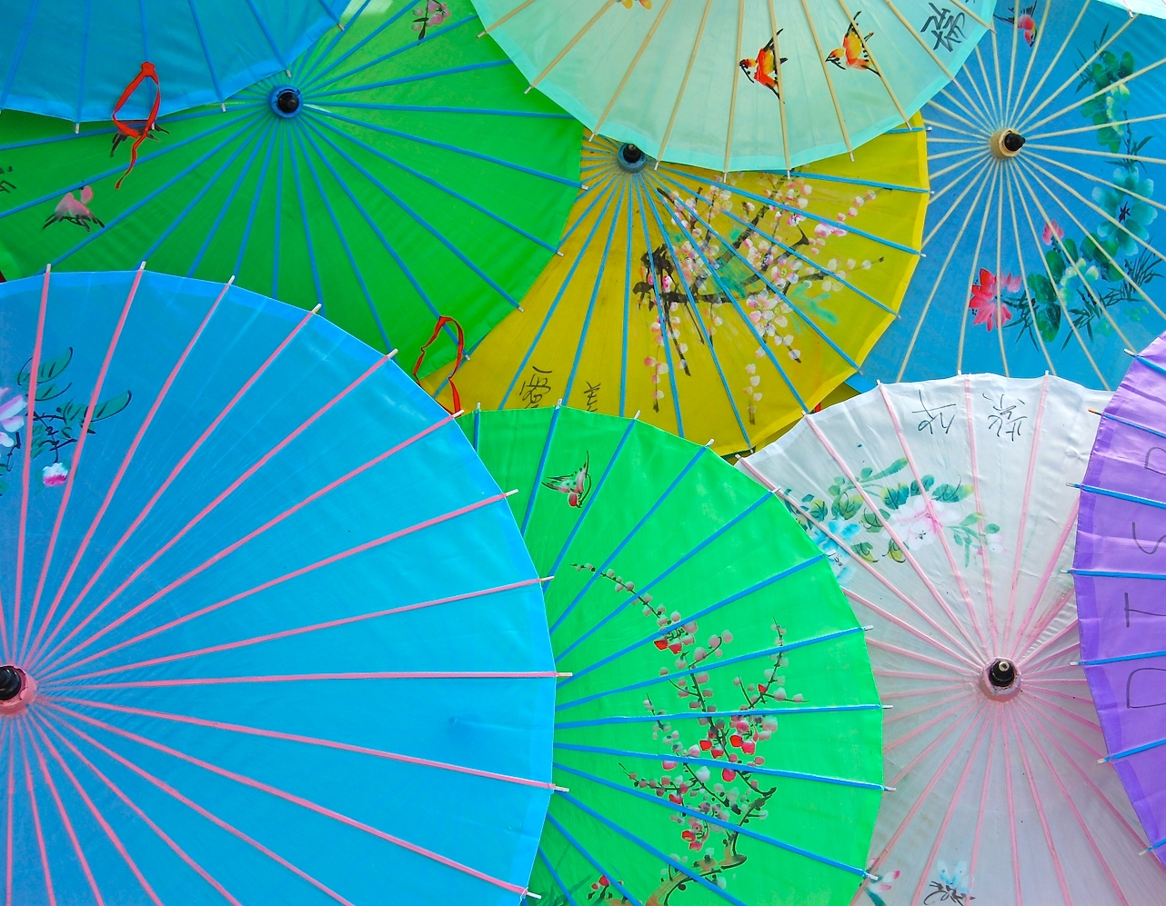 Chinese umbrellas in Florida